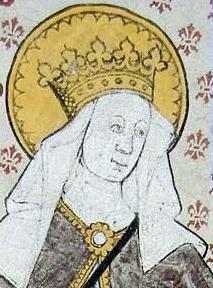 Queen Ragenilda of Sweden (†1125) a.k.a. Heliga Ragnhild